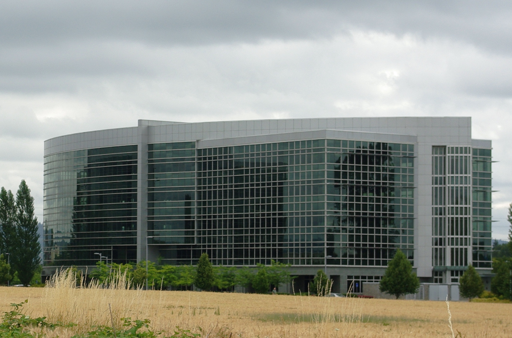 Synopsys campus in Hillsboro, Oregon, USA.